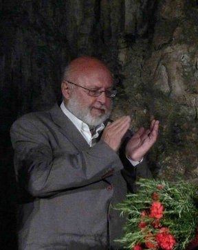 Milan Jesih (born 1950) , Slovene poet, playwright and translator.